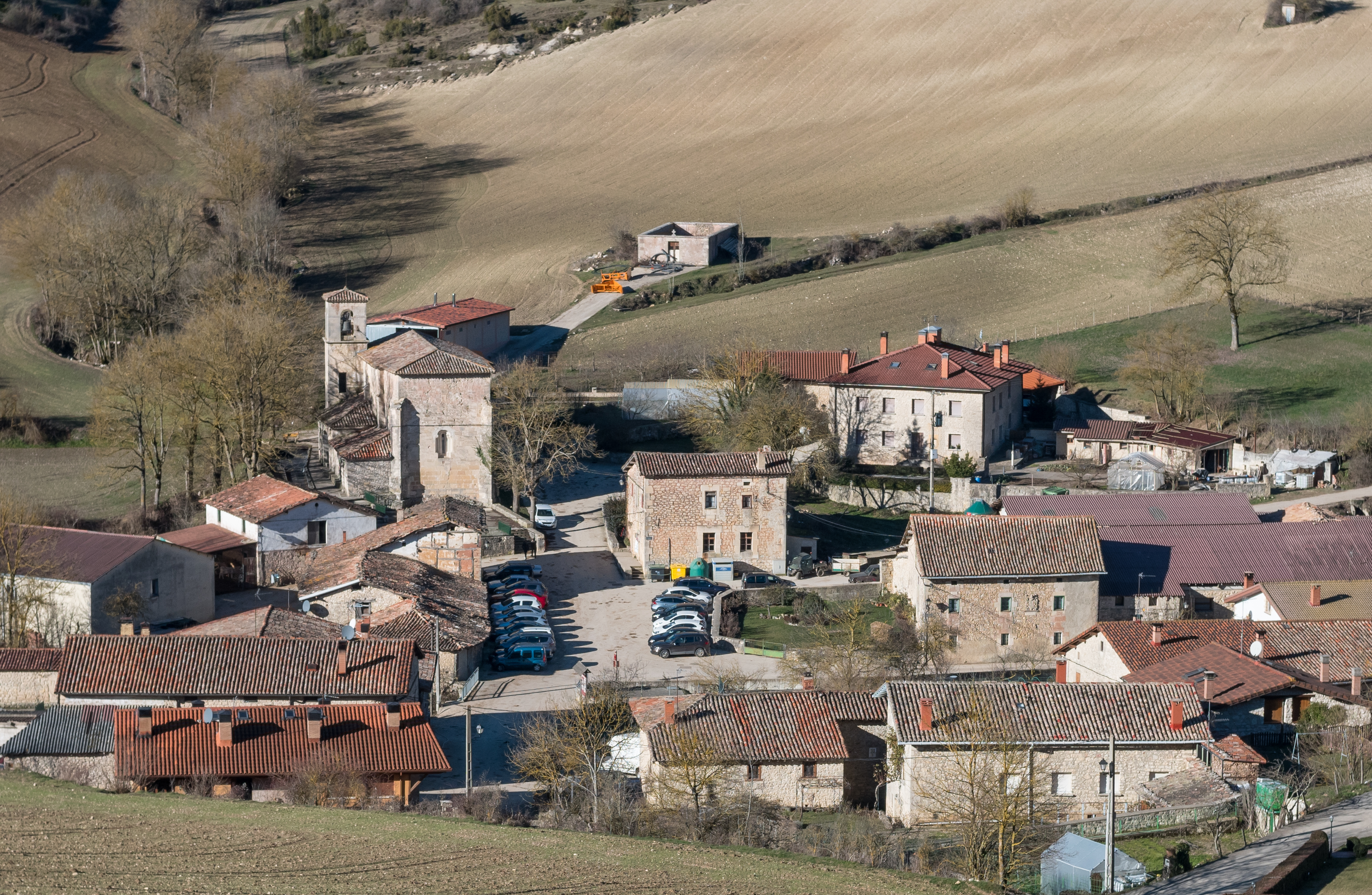 View of Okina. Álava, Basque Country, Spain